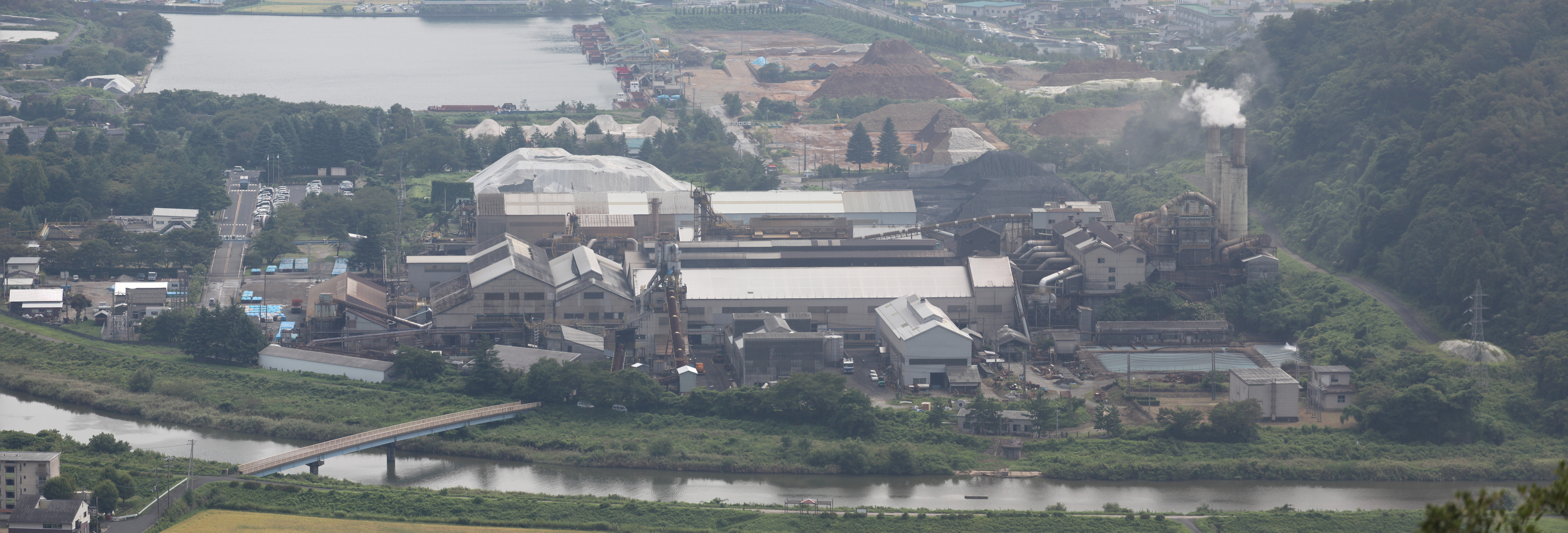 Ōeyama Seizōsho of Nippon Yakin Kōgyō. View from Ichijikan Park at Ōuchi pass.